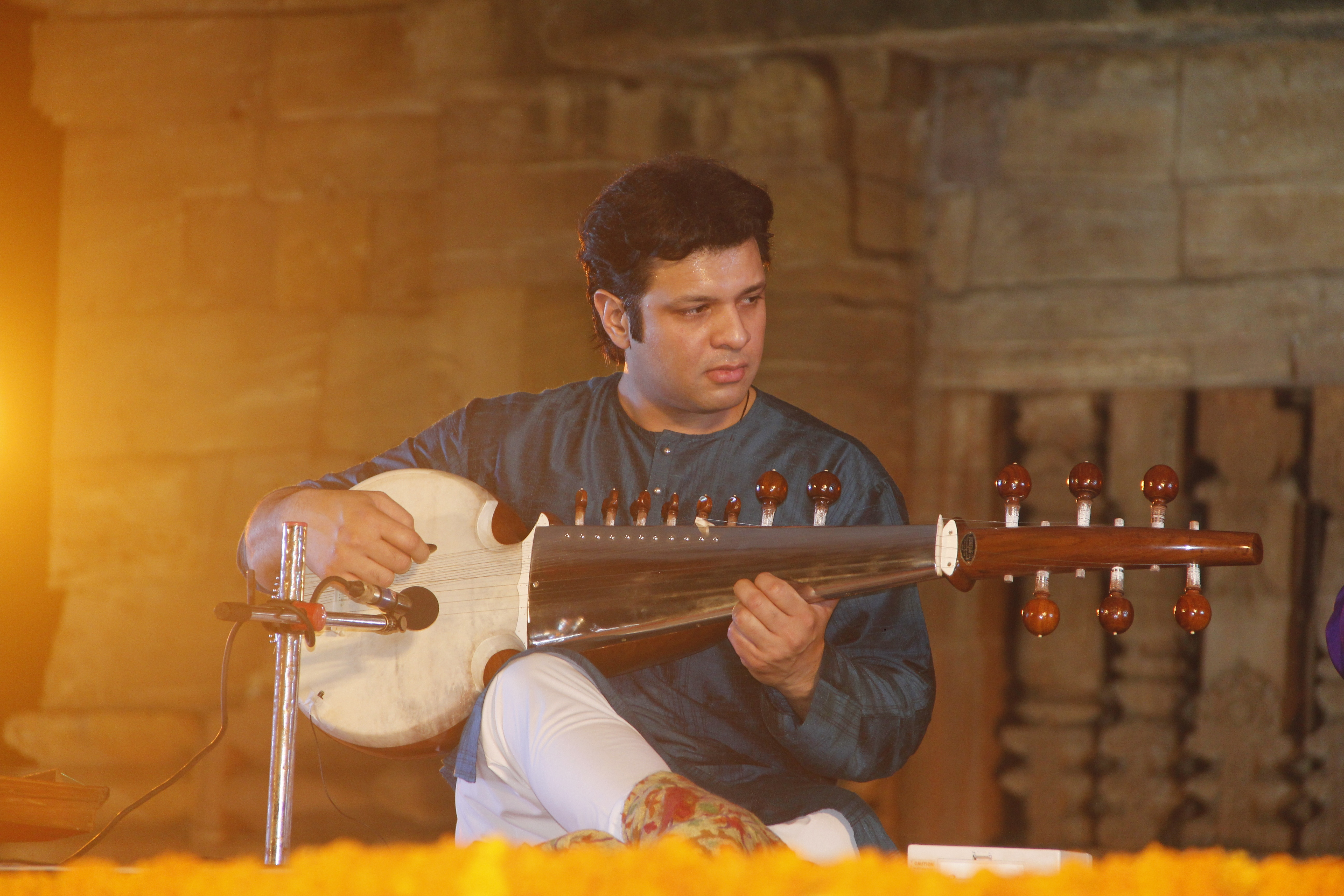 Amaan Ali Khan Performing at Rajarani Music Festival-2016, Bhubaneswar, Odisha, India